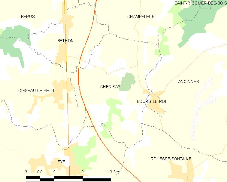 Map of French municipality